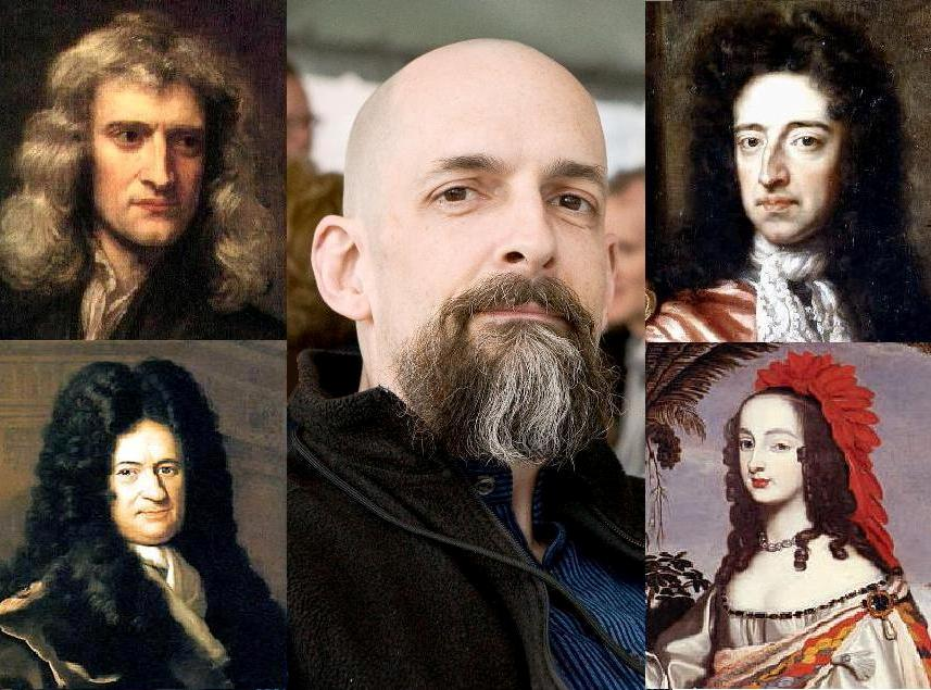 A montage showing author Neal Stephenson and four historical characters from his book series The Baroque Cycle: (counterclockwise from top left) Isaac Newton, Gottfried Leibniz, Electress Sophia of Hanover and William of Orange